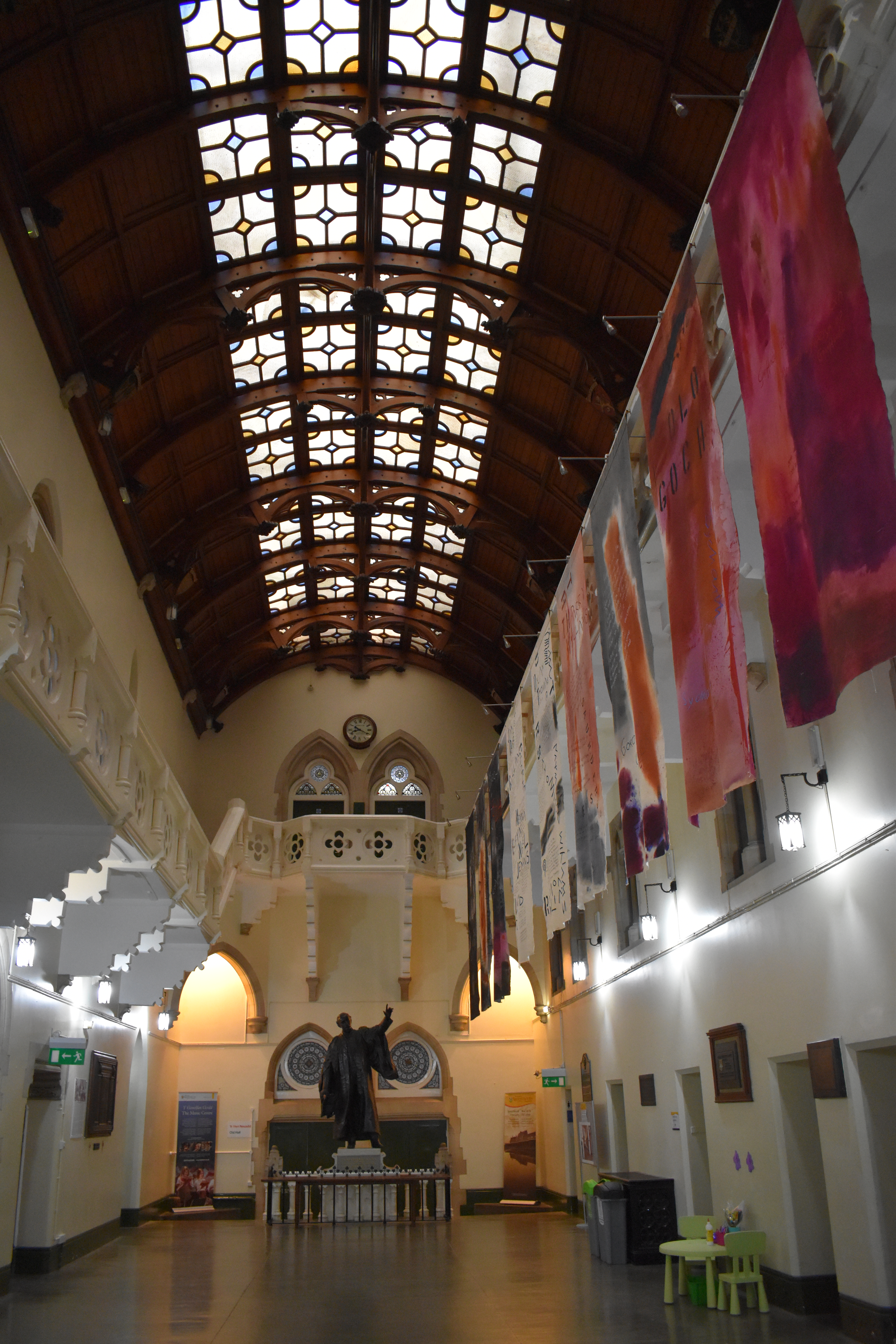 The interior of the Main Hall of the Old College of Aberystwyth University in 2018.